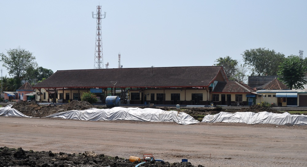 Prujakan train station in Cirebon, West Java